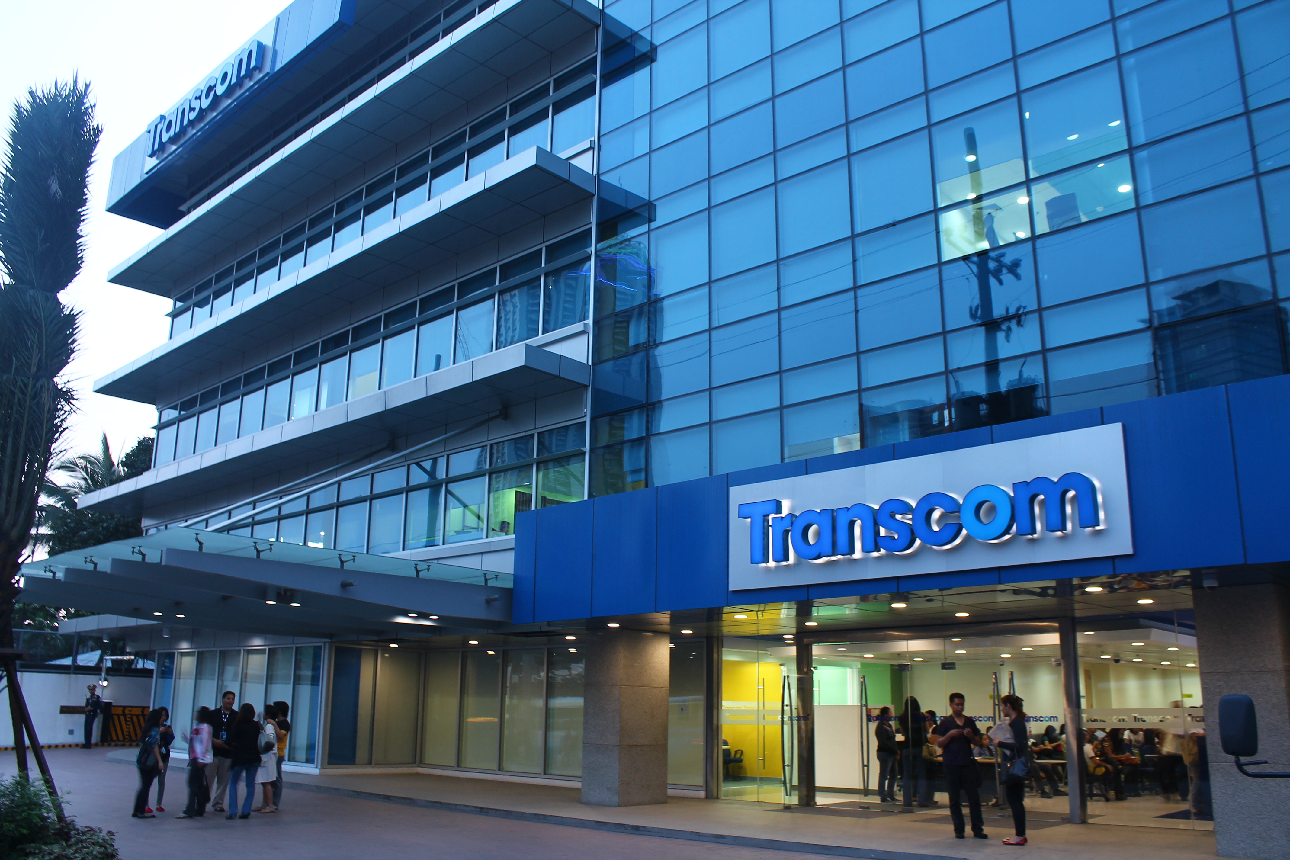 One of the numerous call centers in Metro Manila, Philippines.